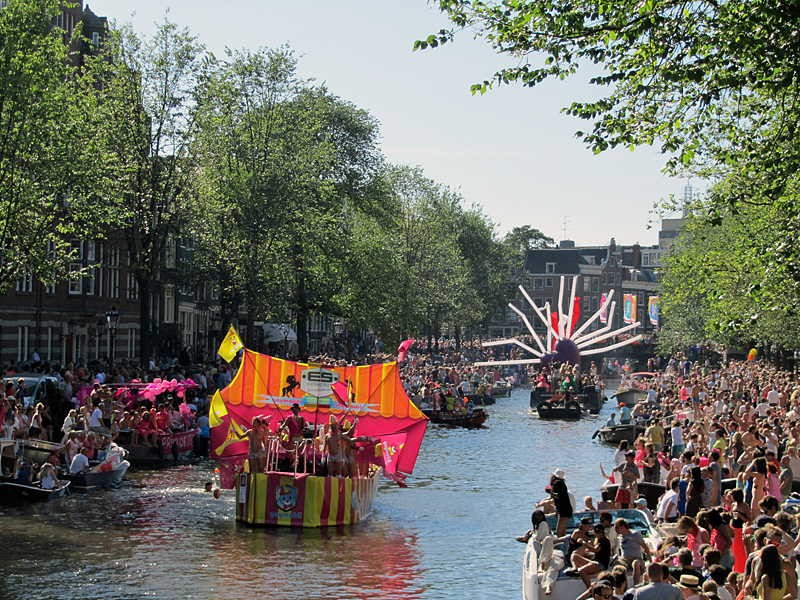 Two boats participating in the Canal Parade of the Amsterdam Gay Pride of 2013